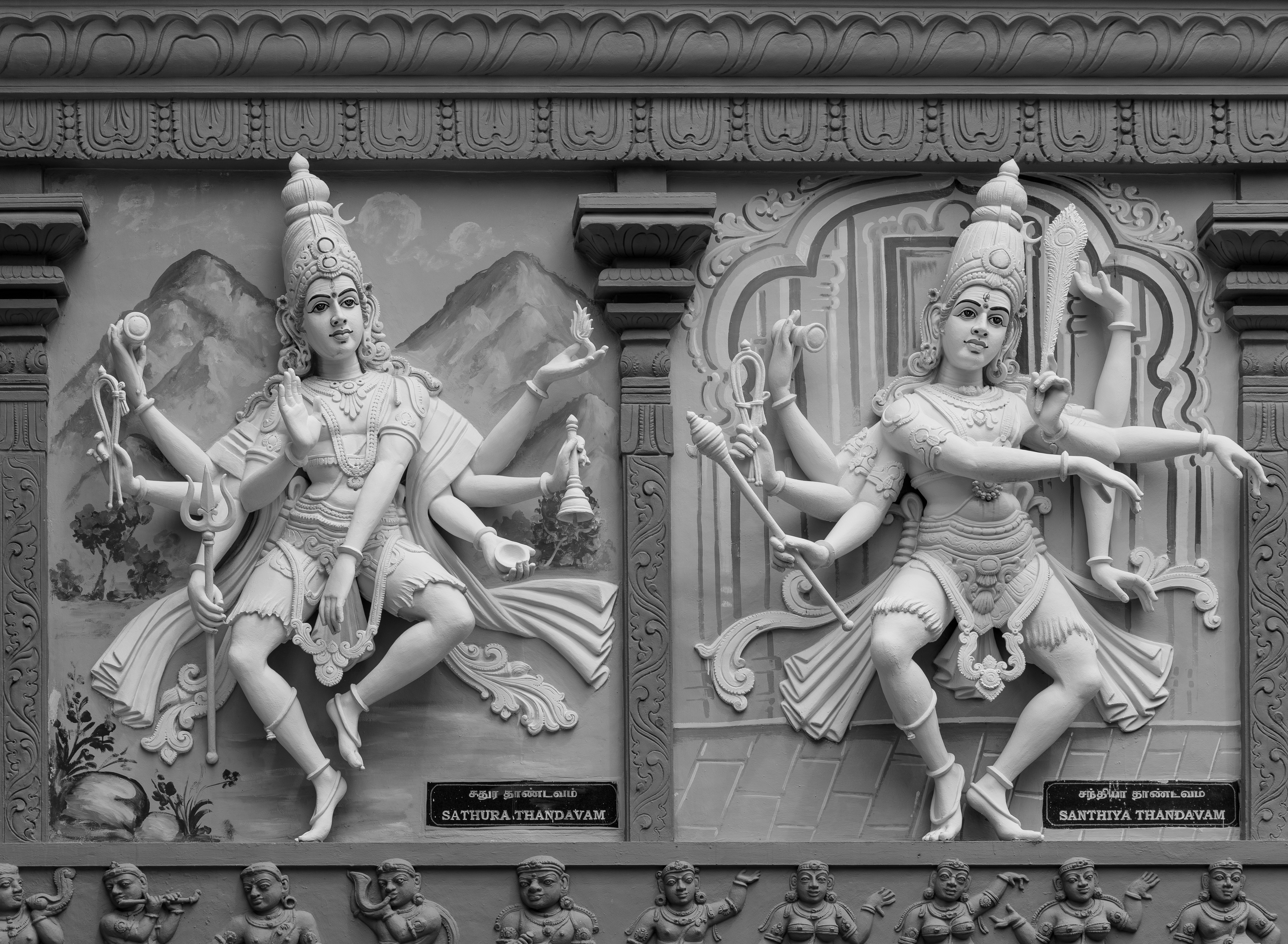 Sculptures of god Shiva depicted with 8 arms, dancing Sathura and Santhiya Thandavam as seen on the exterior facade of the Ganesha Sri Senpaga Vinayagar Temple in Singapore